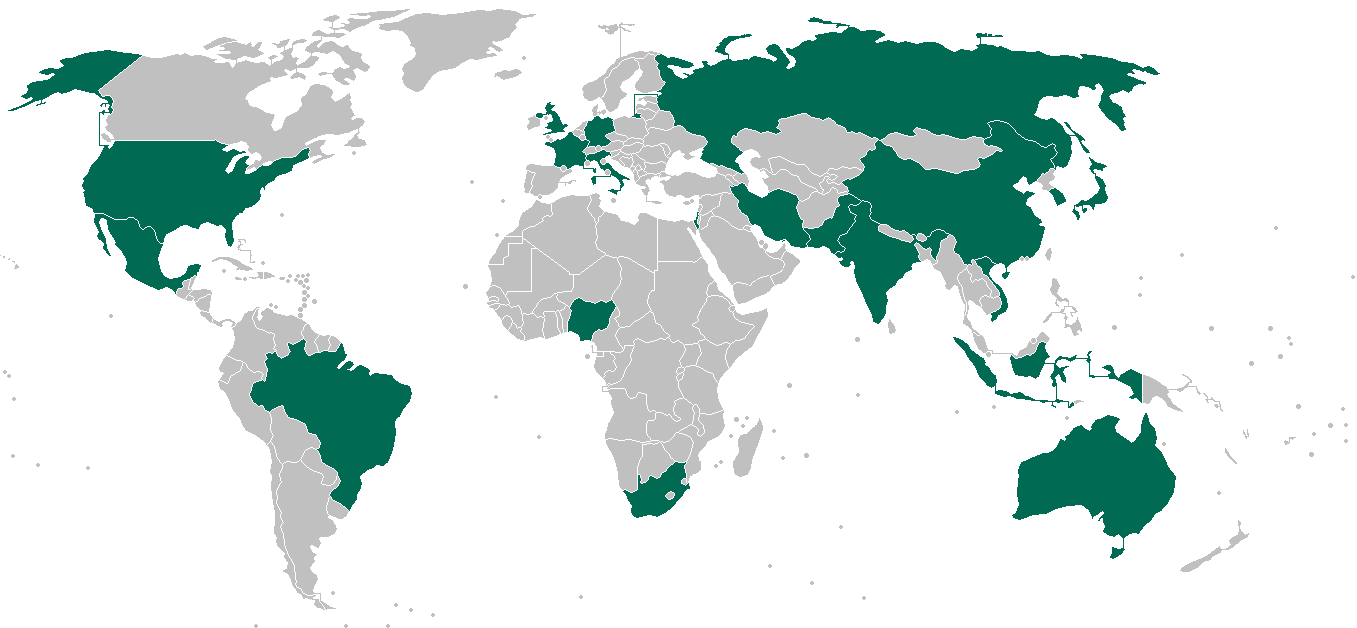 Regional powers displayed on a world map.